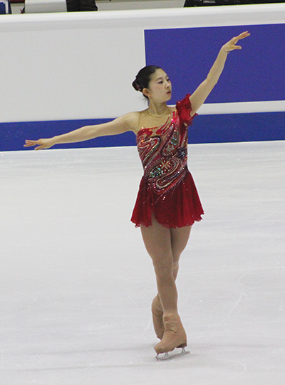 Yuka Nagai in 2015